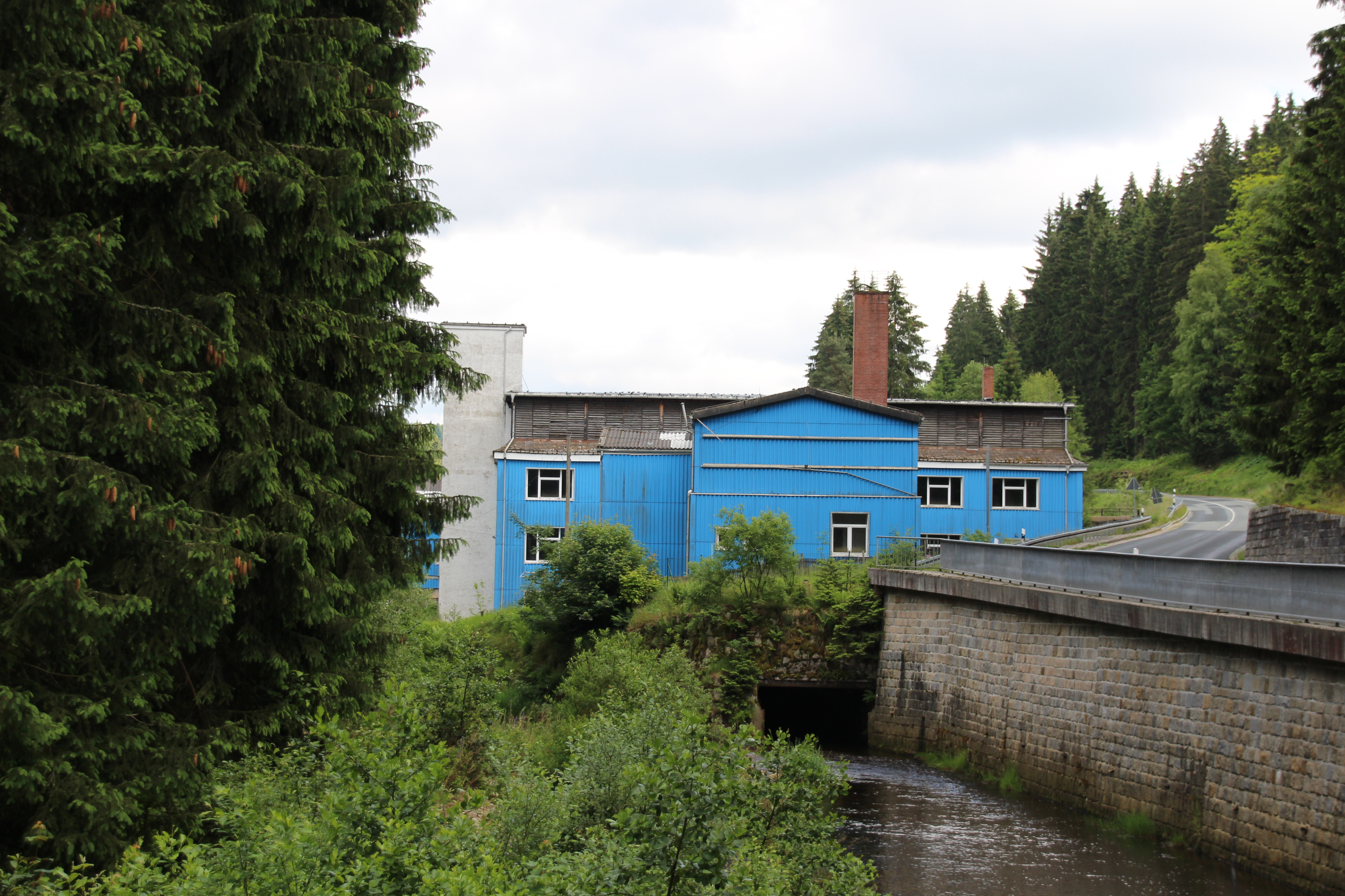 Former mechanical wood pulp factory at Wilzschhaus (district of Schönheide), Zwickauer Mulde, Ore Mountains, established by Louis Friedrich in 1855.